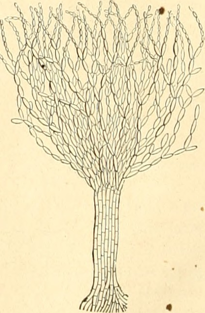 Coremium (synnema) of Coremium niveum